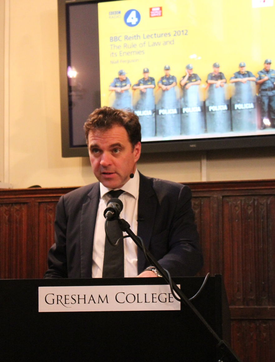 Professor Niall Ferguson delivering the BBC Reith Lecture at Gresham College, June 2012.